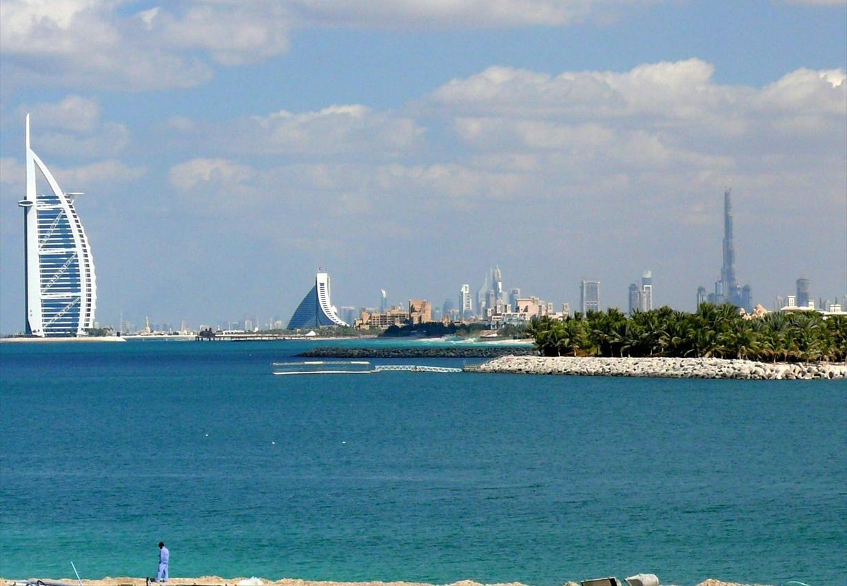 This is a photo of the Dubai, United Arab Emirates skyline on 10 January 2008. This photo was taken from the Trunk of the Palm Jumeirah. On the left is the Burj Al Arab. Just left of center is the Jumeirah Beach Hotel. To the right of that is the cluster of skyscrapers along Sheikh Zayed Road. The tall structure rising on the right is the Burj Dubai. It is very unusual to have this much clairity in Dubai. Usually, the Burj Dubai and the skyline of Sheikh Zayed Road are not visible form the Palm Jumeirah. Rains that came throught the Middle East in the past few days cleared out the air and made this view possible.